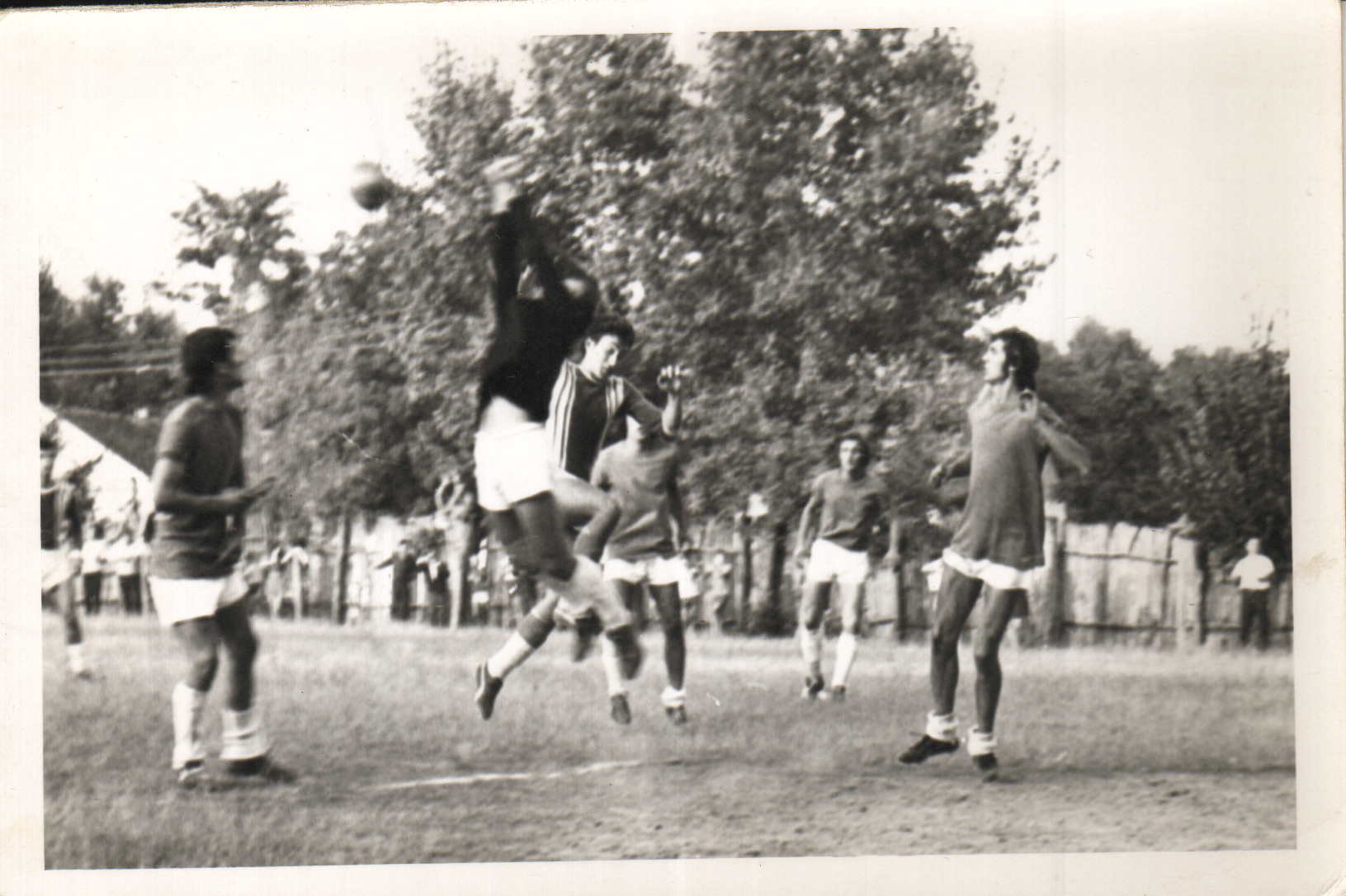 Moment_from_game on Old Field, Ernö Varga #9 in action (jump)